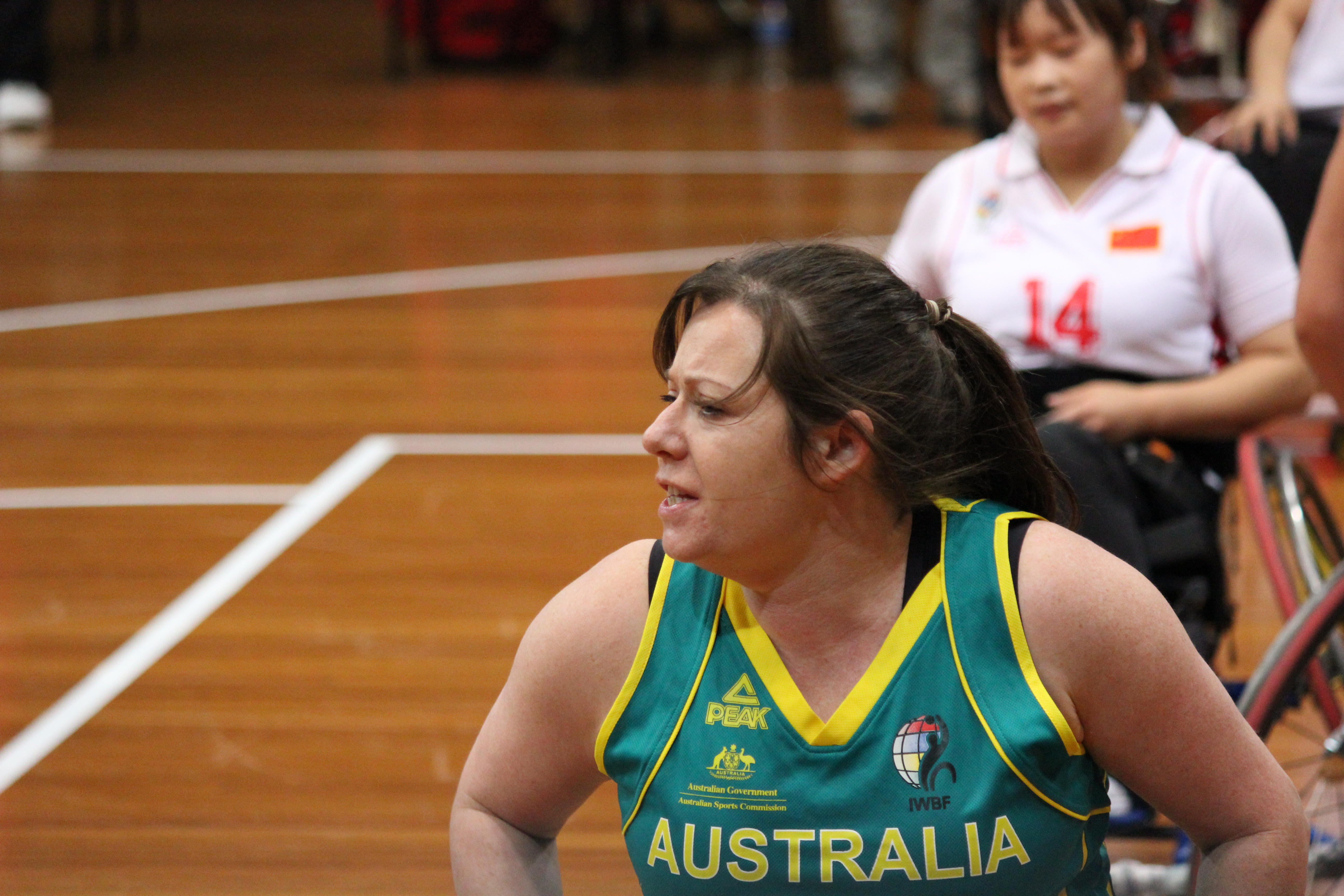 Aussie Gilder player in July 2012 in Sydney.